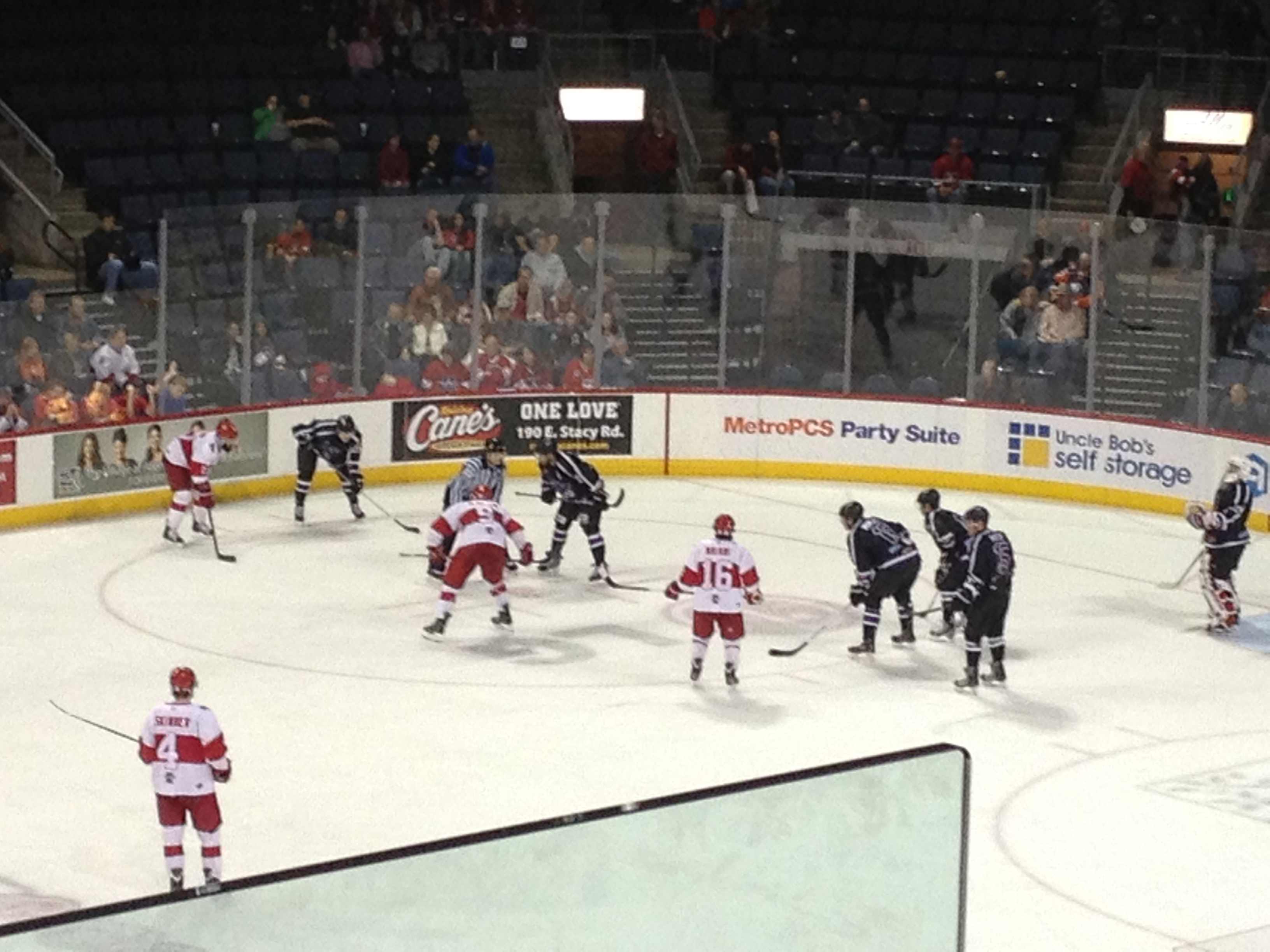 The Fort Worth Brahmas versus the Allen Americans at the Allen Event Center in Allen, Texas. Both teams play professional ice hockey in the Central Hockey League.